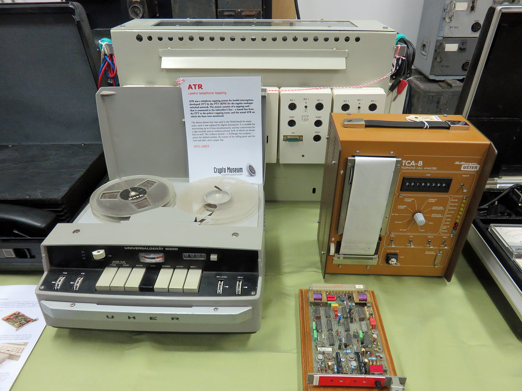 Devices for the lawful interception of telephone lines as used in the Netherlands from 1971 to 2003 where it was called "Automatische Telefoon Registratie" or ATR. It consisted of a tapping card that was connected to a subscriber line, the actual ATR device, a tape recorder for the content of the calls and a device that prints the metadata of the calls on a paper slip. The devices were shown on an exhibition of the Dutch Crypto Museum.